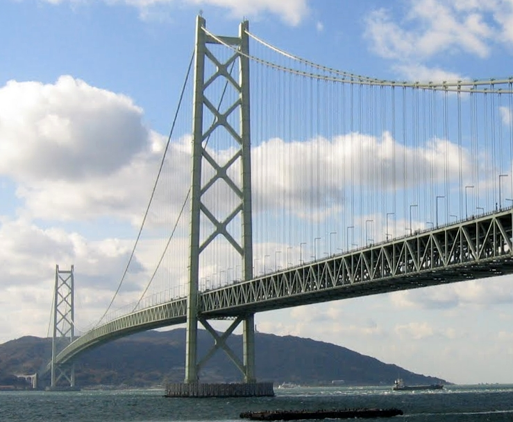 The Akashi Kaikyō Bridge between Kobe and Awaji Island in Japan